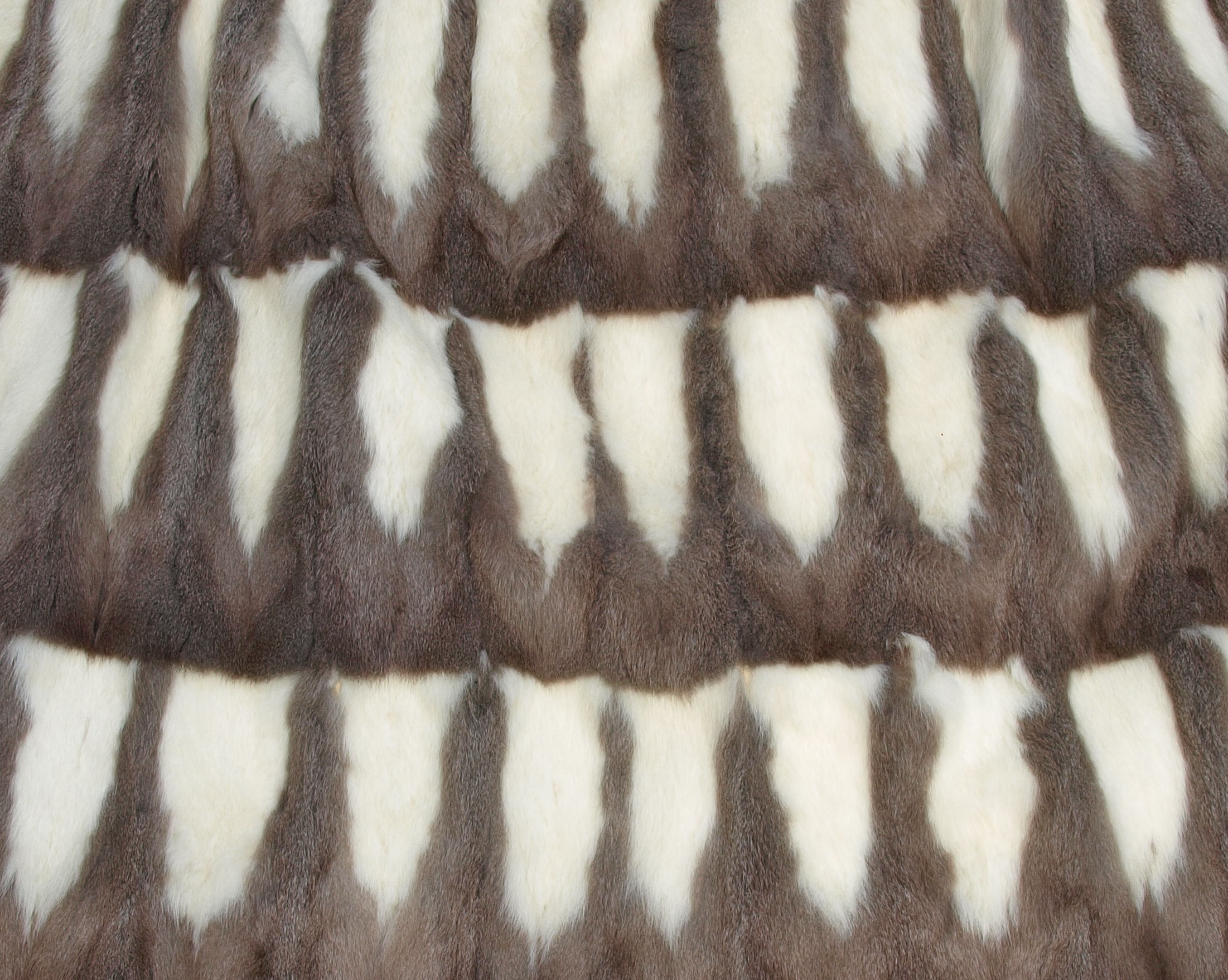 Coat of squirrel bellies fur-skins (cut)